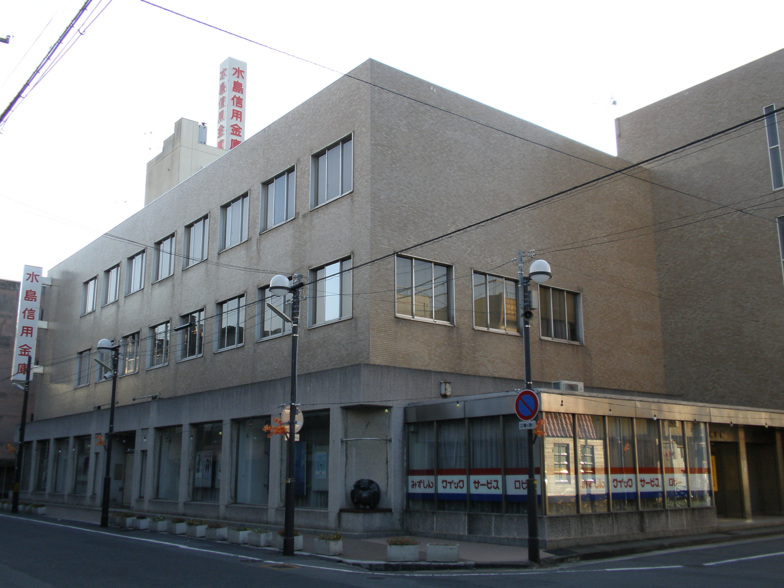 Mizushima Shinkin Bank head store in Mizushima, Kurashiki.